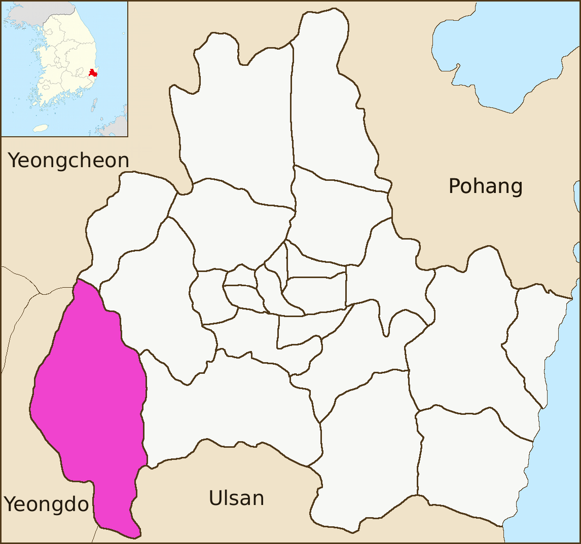 Map of Sannae-myeon, an administrative division of Gyeongju, South Korea. Created by User:Visviva, redrawn by Kokiri